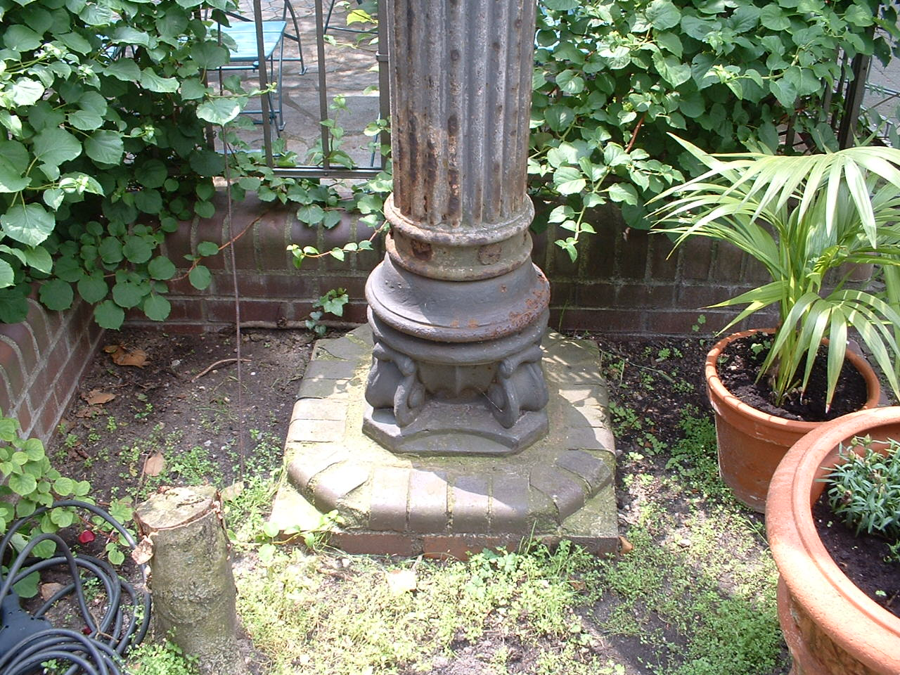 Hartungsche Saeule foot, Berlin, garden